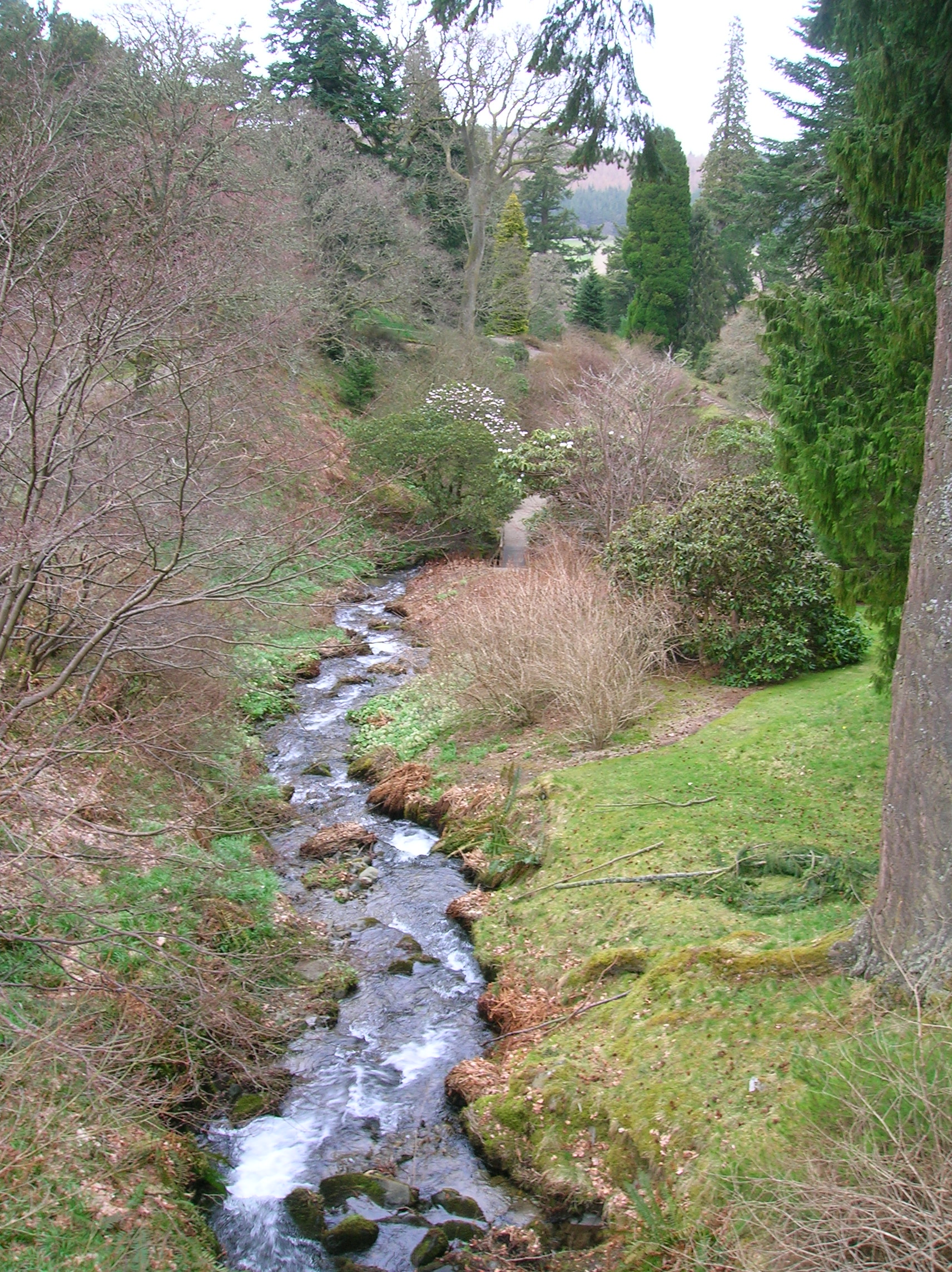 A view from the Dutch Bridge of the Scrape Burn, Dawyck Botanic Gardens, Scottish Borders.